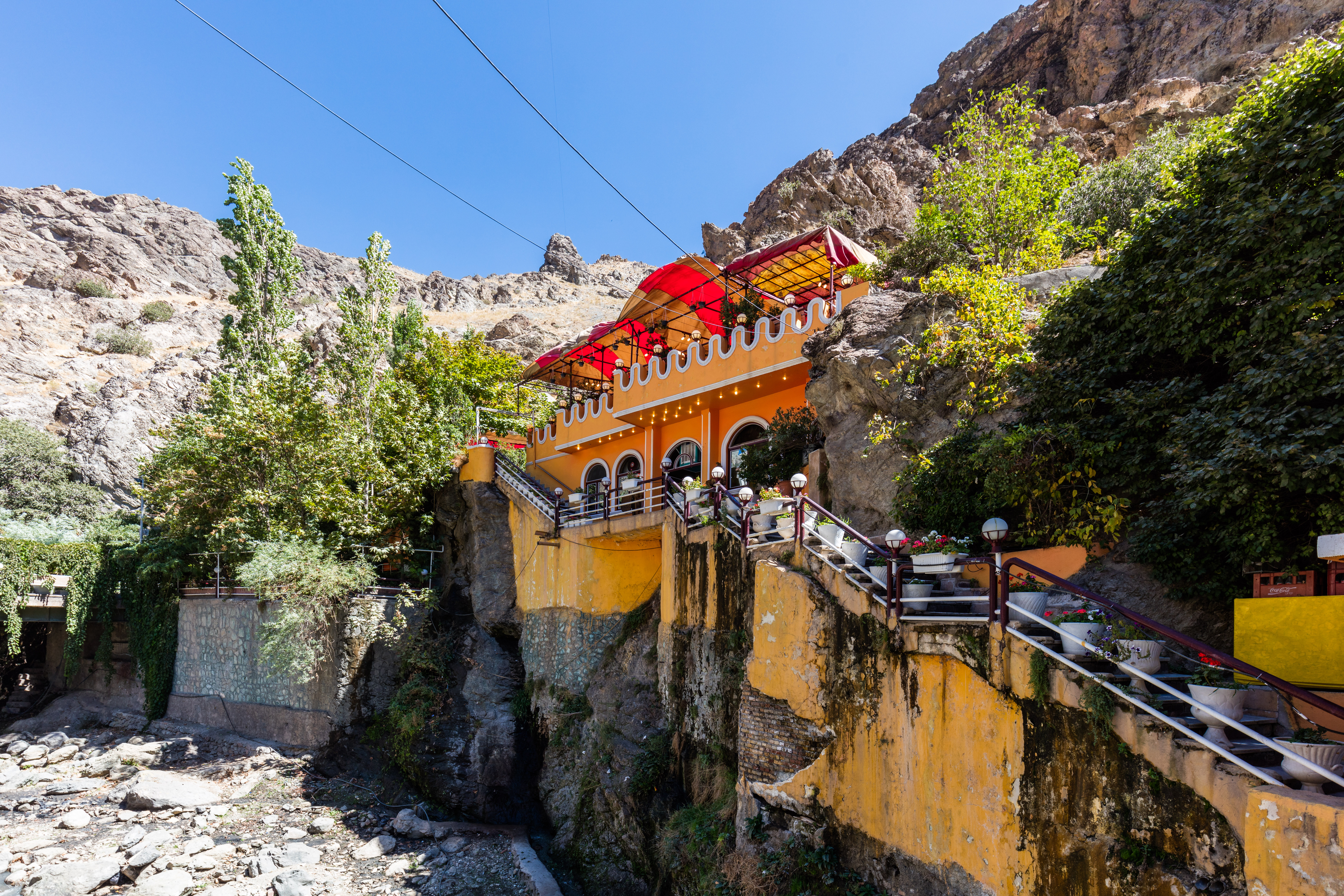 Darband, Tehran, Iran